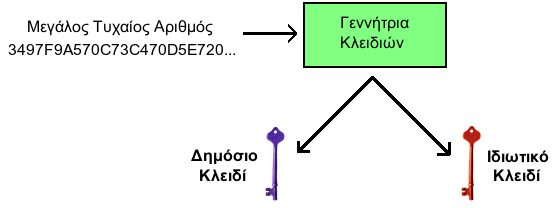 cryptography key generator